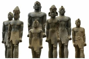 Nubian Pharoahs